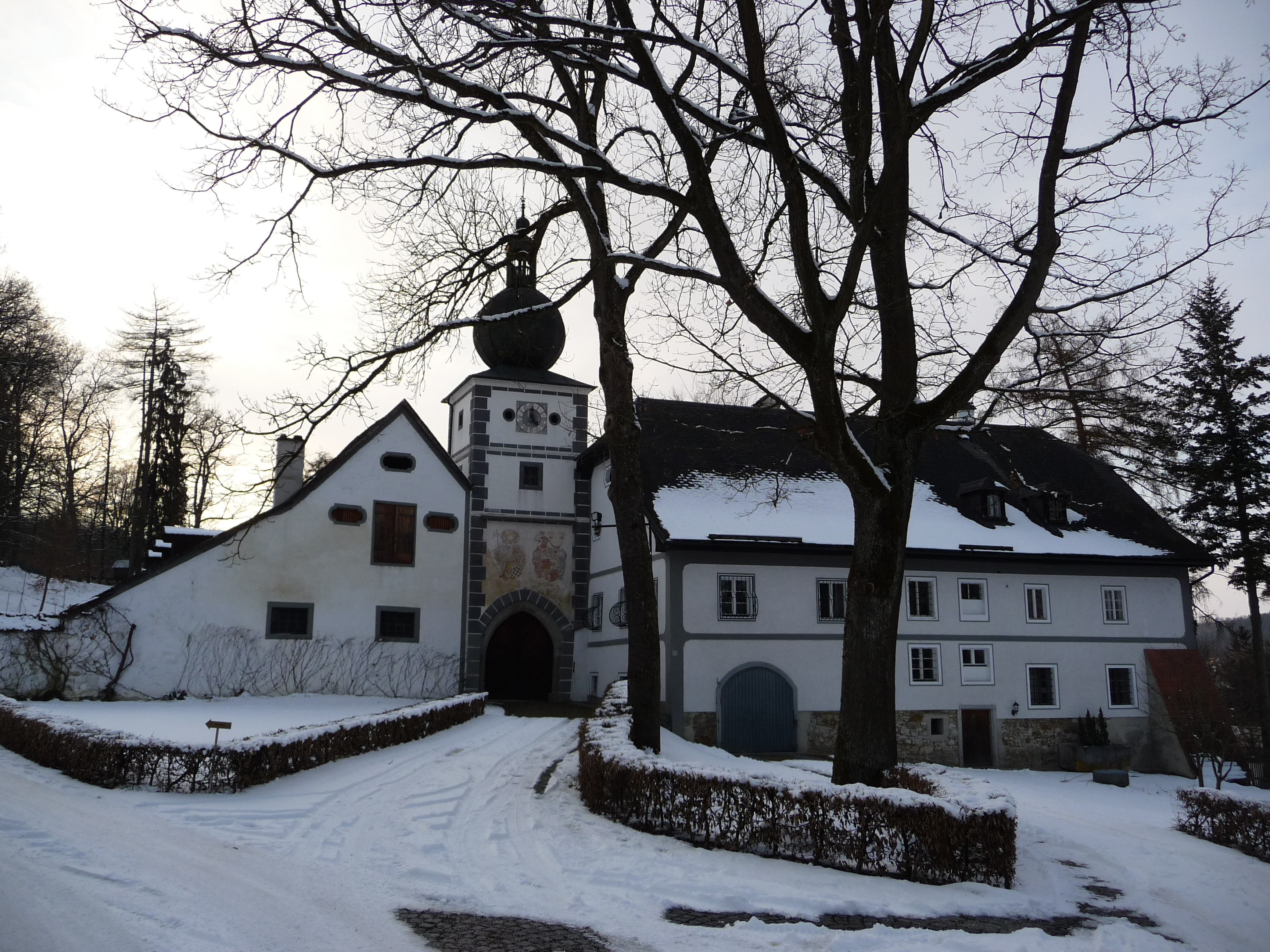 Exterior of Schlüsslberg castle